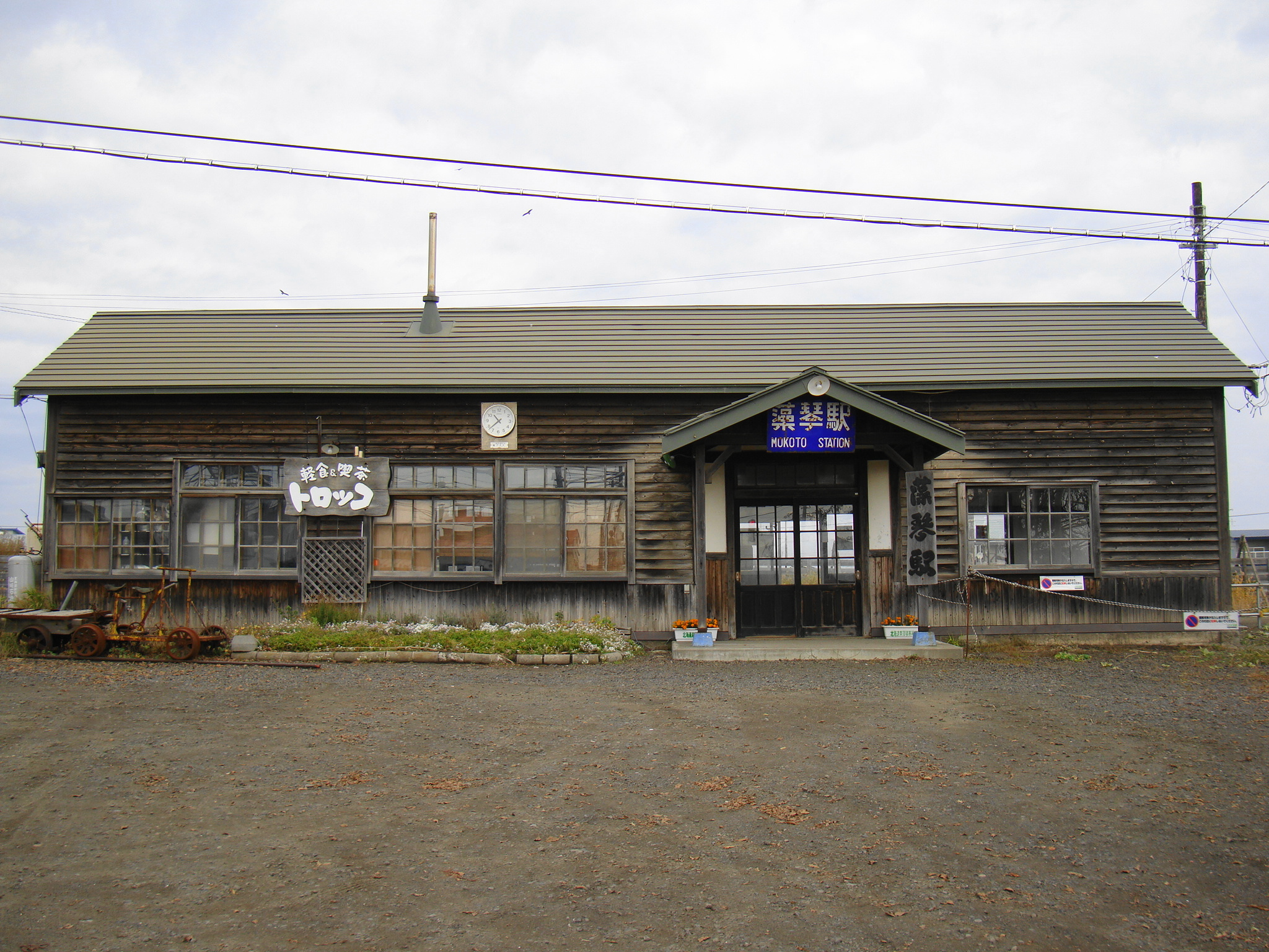 Mokoto Station